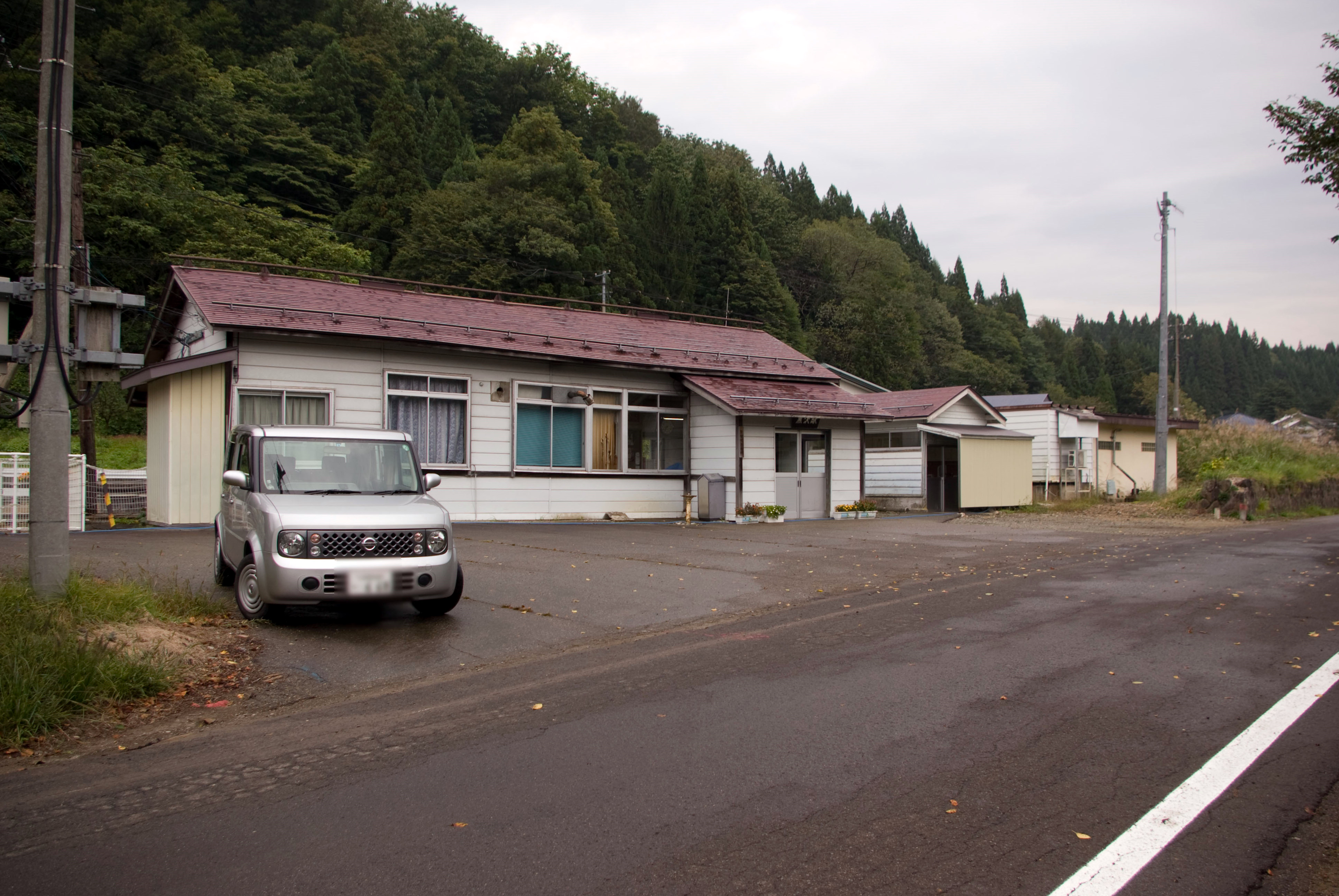 Kurosawa Station on JR East Kitakami Line